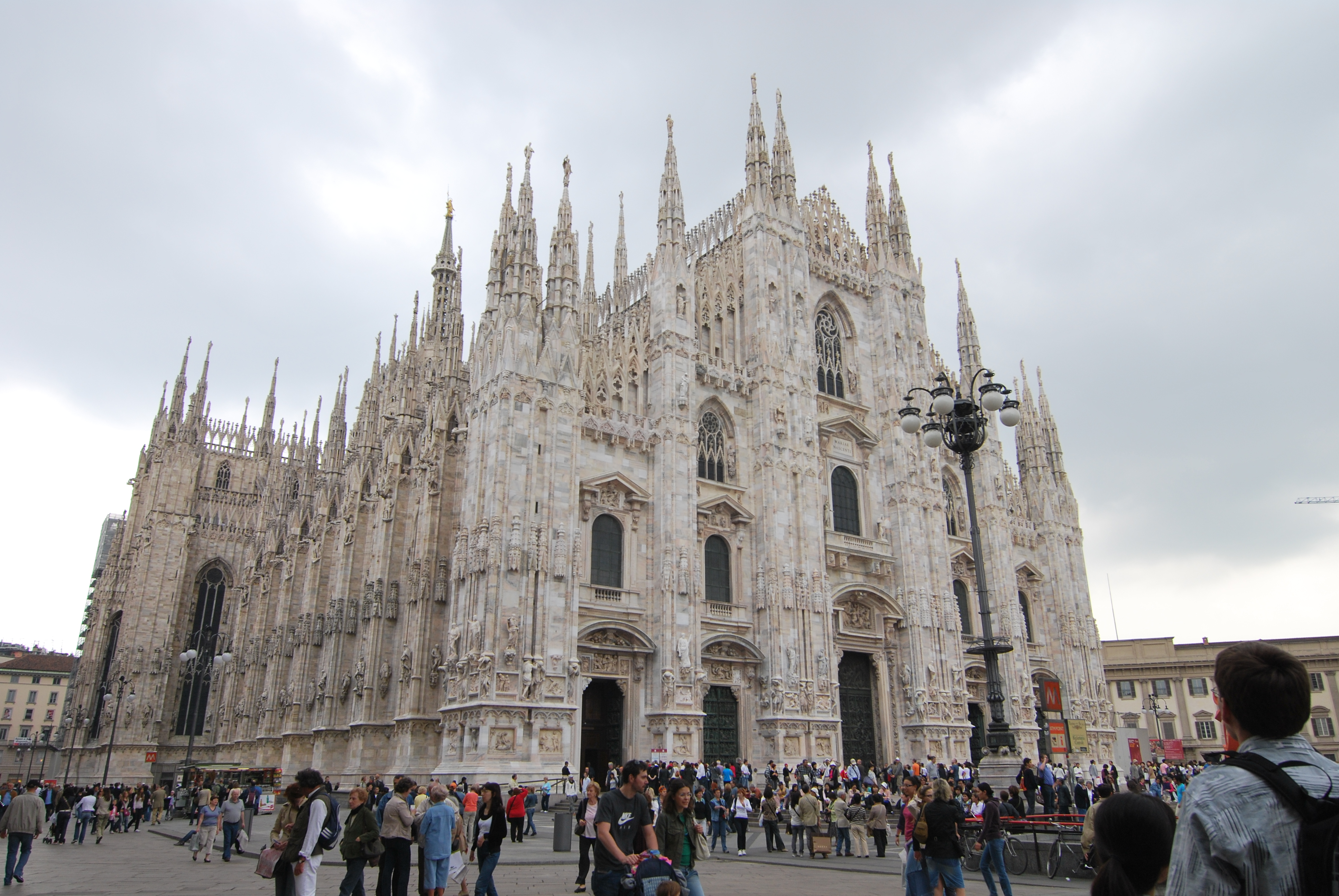 Duomo, Milan